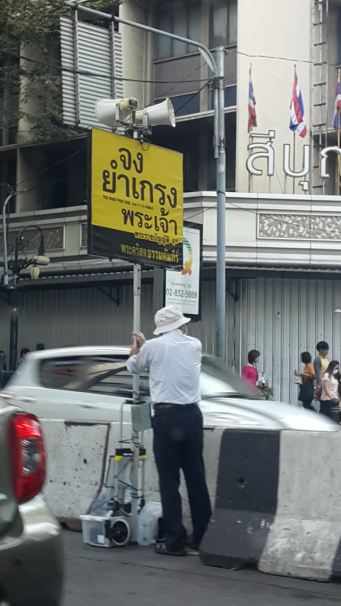 A man holding the sign persuading people to join the church on Silom rd near the Sala Daeng BTS Station